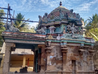 Tirumangalakudi prananatheswarar temple திருமங்கலக்குடி பிராணநாதேஸ்வரர் கோயில்